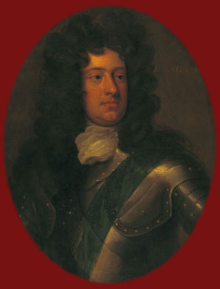 James Hamilton, 4th Duke of Hamilton (1658-1712)